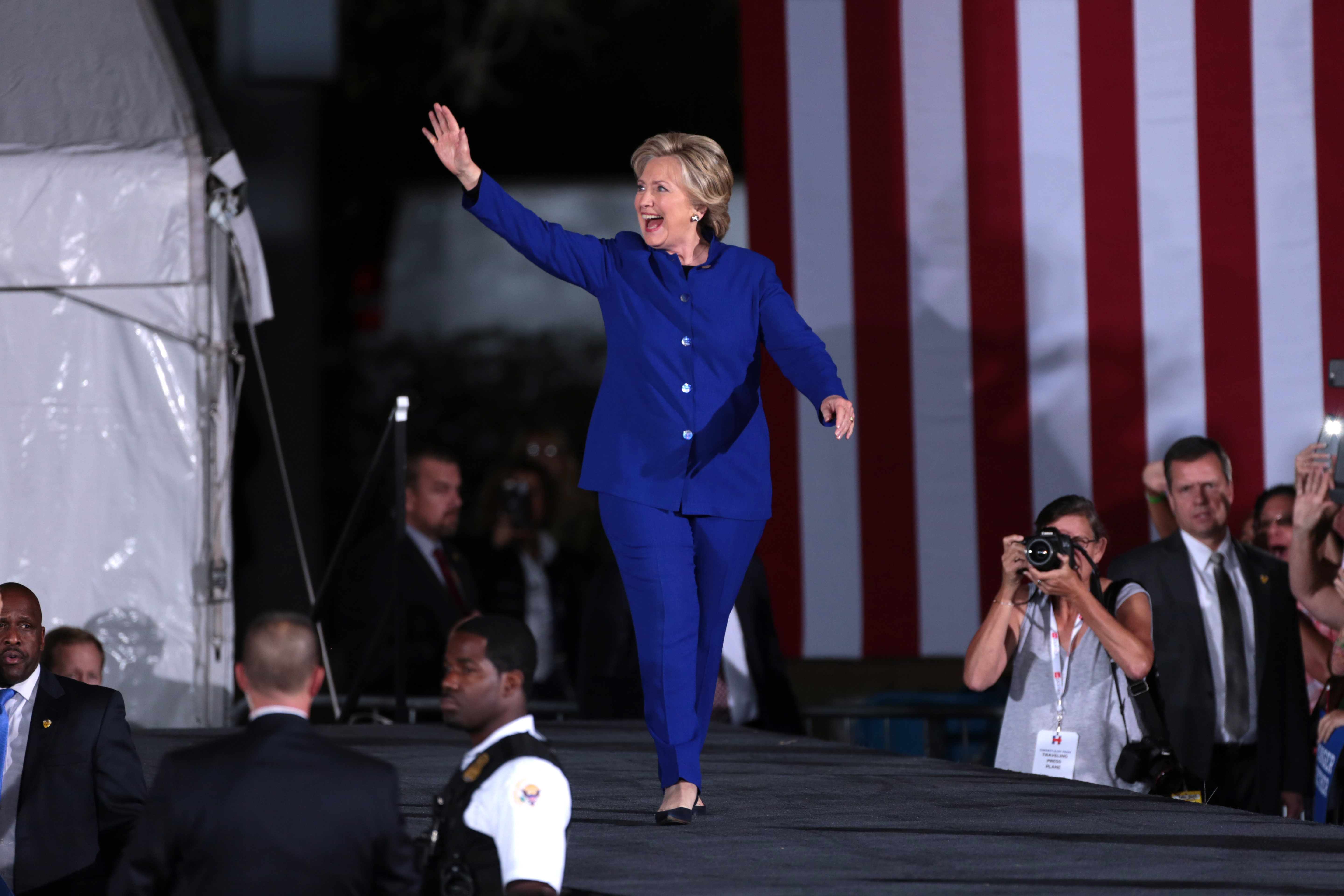 Former Secretary of State Hillary Clinton speaking with supporters at a campaign rally at the Intramural Fields at Arizona State University in Tempe, Arizona.